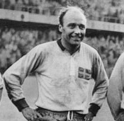 Gunnar Gren